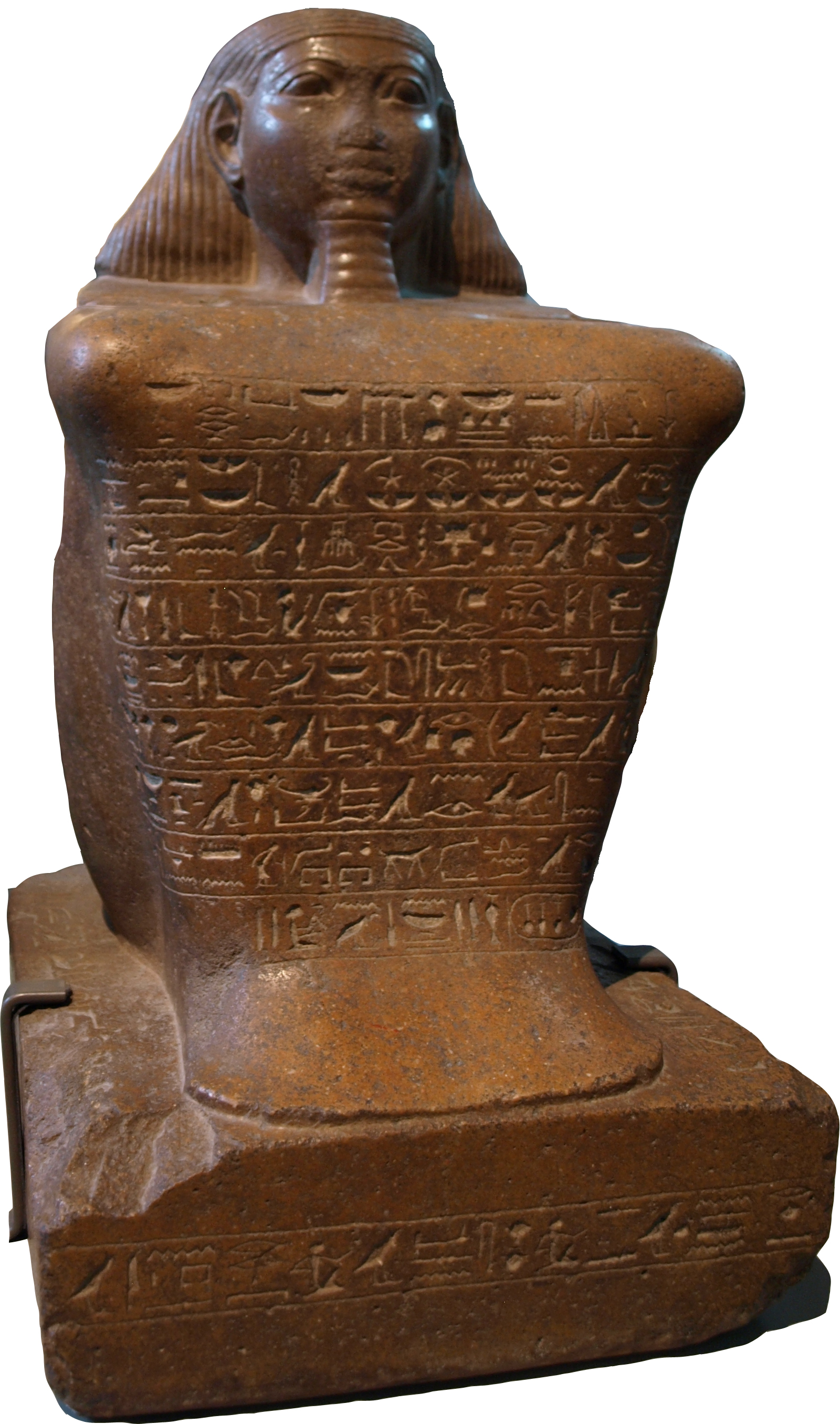 Quartzite block statue of Senenmut, from the time of the 18th dynasty, circa 1480 BC. Originally from Thebes, at the Temple of Karnak. Inscriptions on the body emphasize his relationship with Thutmose III, while those on the base talk about Hatshepsut. EA 1513.